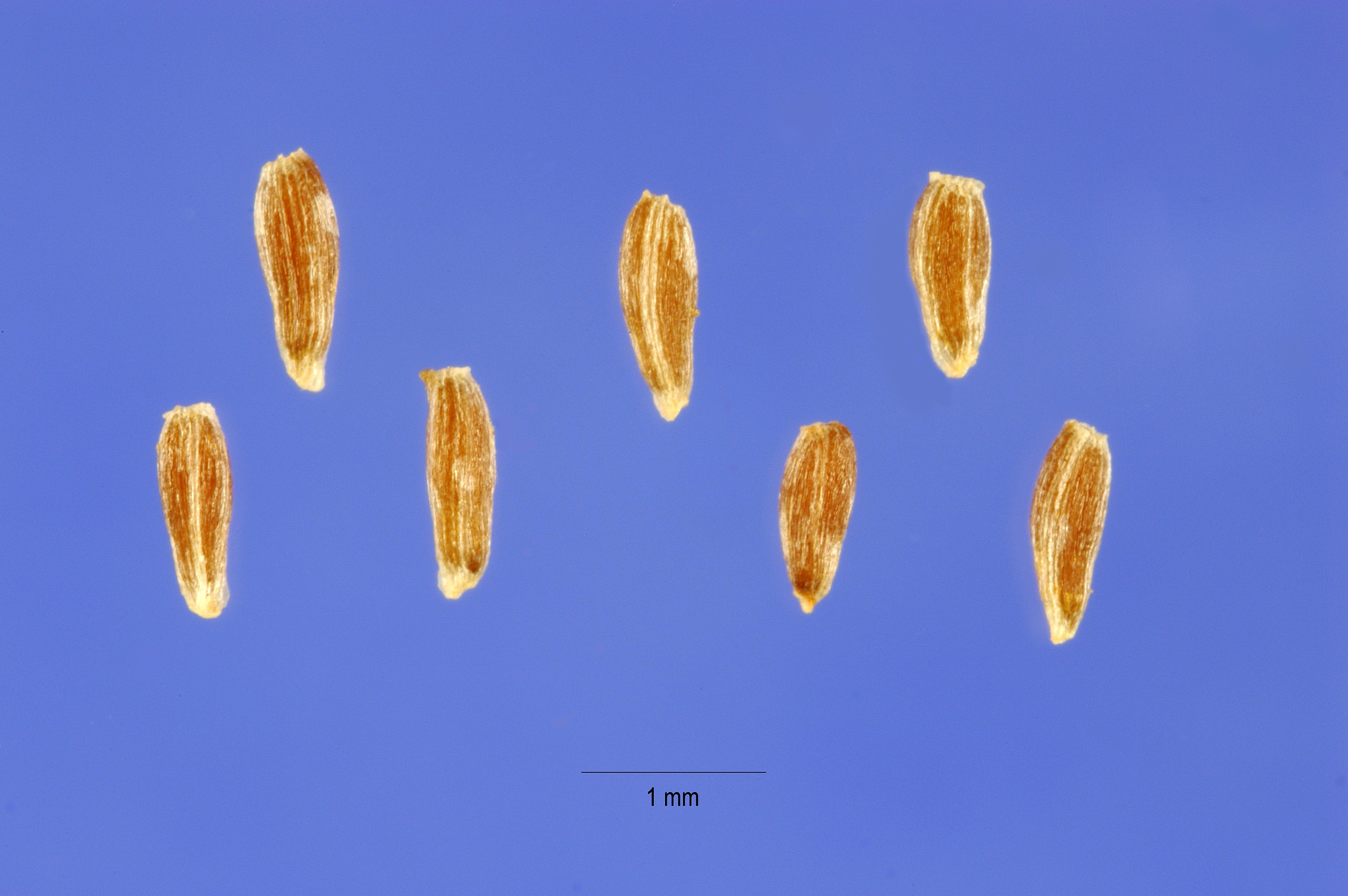 Artemisia ludoviciana seeds from Steve Hurst. Provided by ARS Systematic Botany and Mycology Laboratory. United States, NV